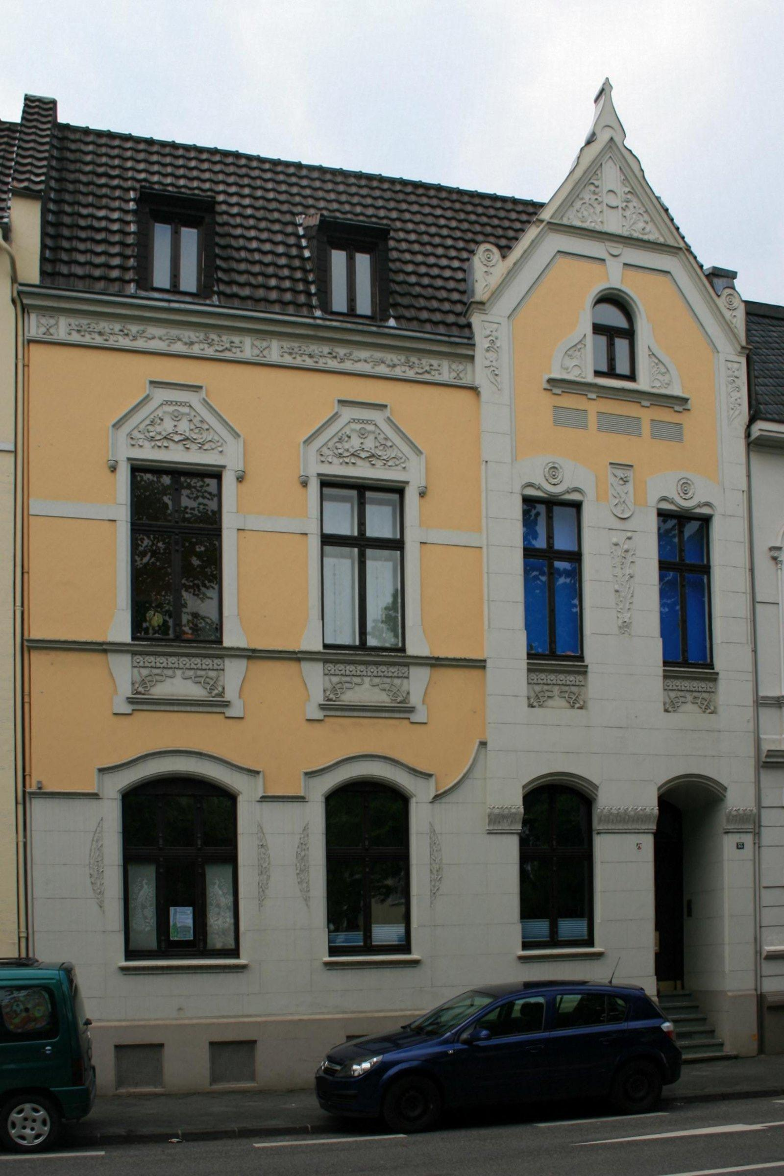 Cultural heritage monument No. B 005 in Mönchengladbach